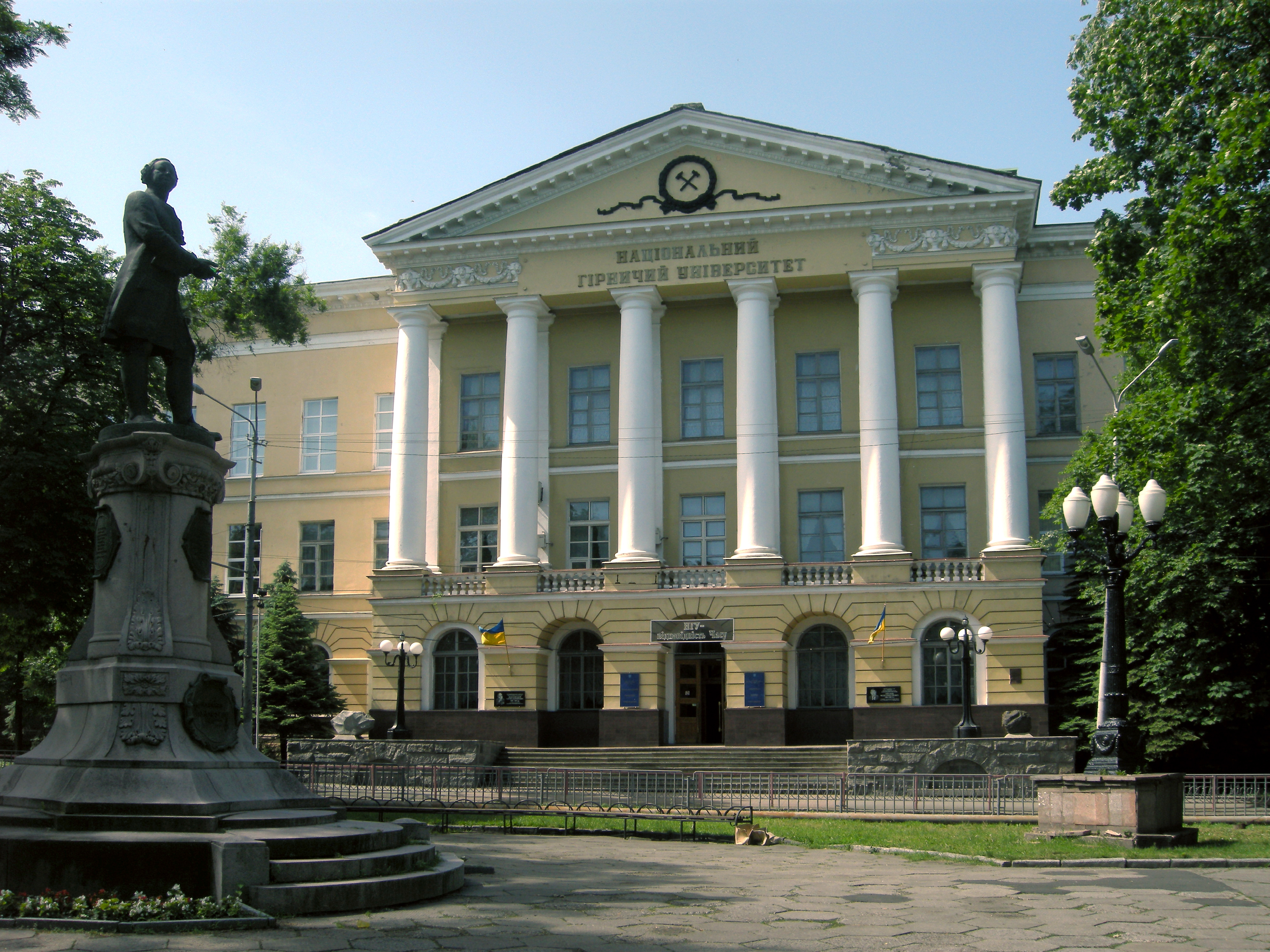 National Mining University (Ukraine)